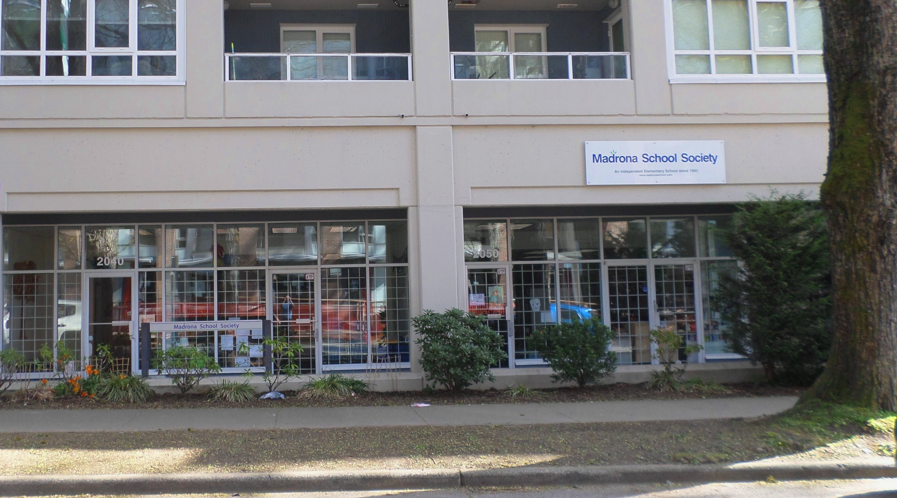 The Madrona School Society, located at 2040 West 10th Avenue, Vancouver, BC.